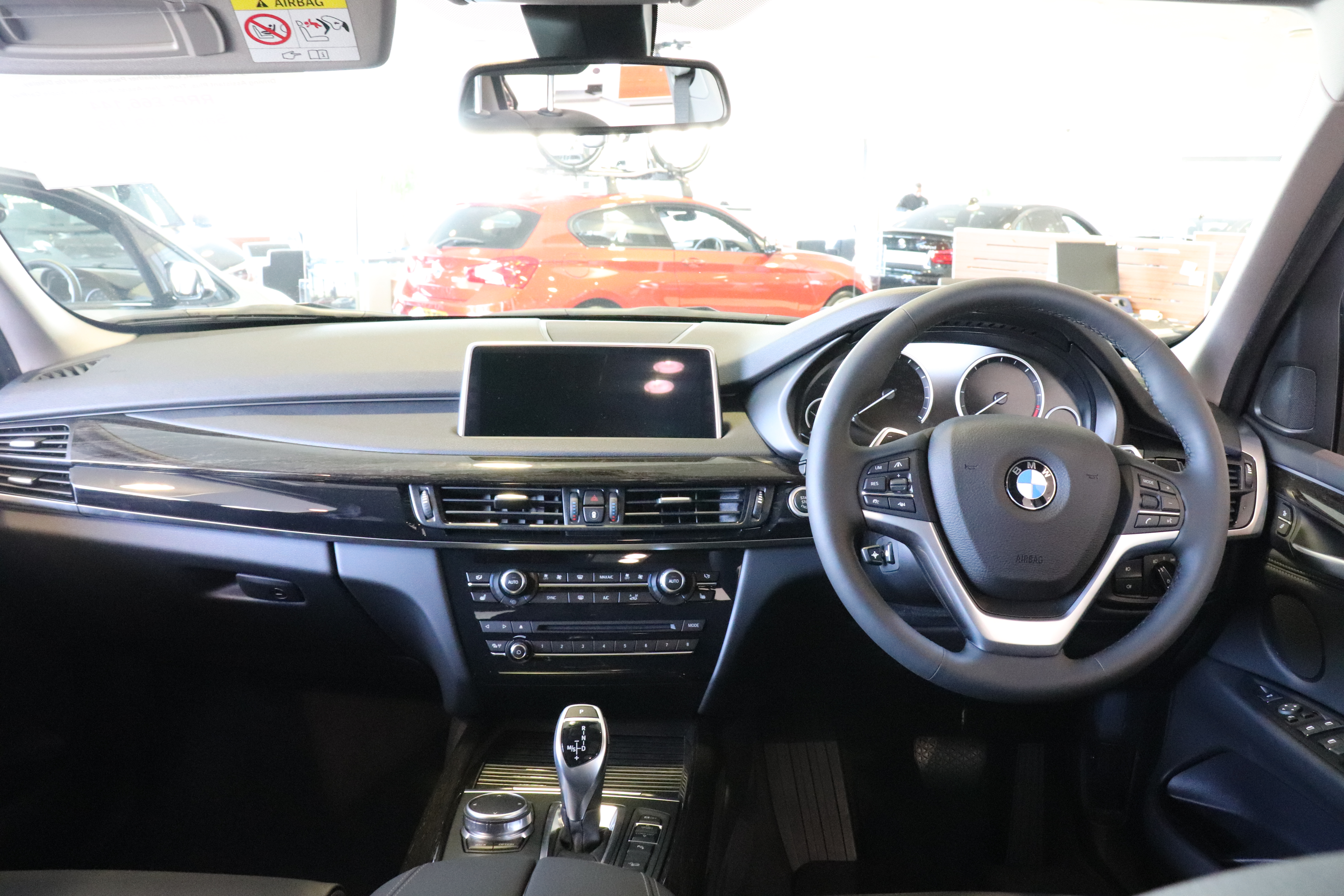 2017 BMW X5 xDrive30d SE Automatic 3.0 Interior Taken in Leamington Spa